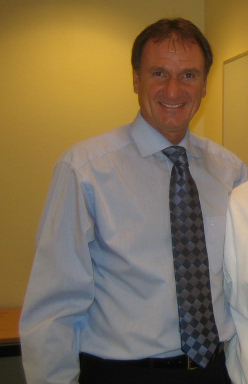 Phil Thompson